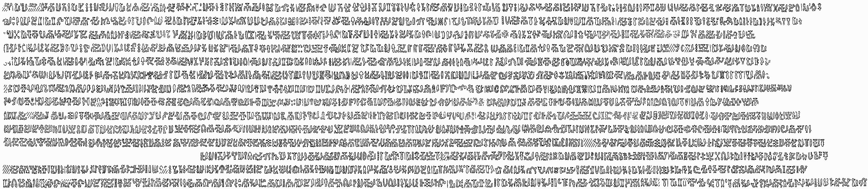 Barthel's tracing of rongorongo text I